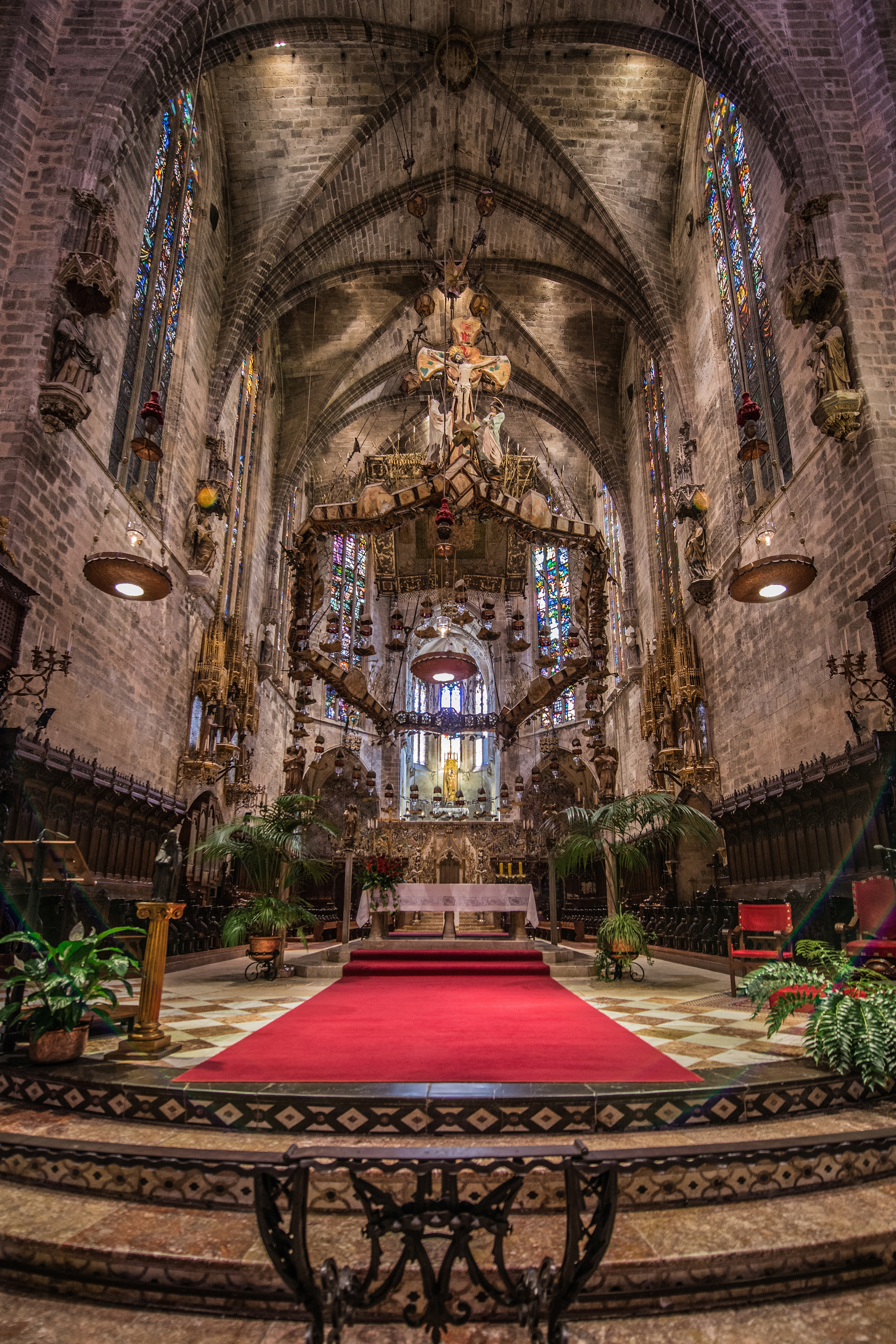 Palma Cathedral